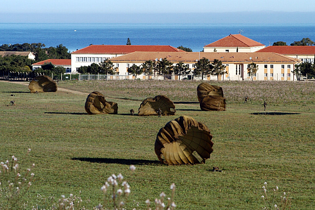 Paratroopers from the 2ème REP (2nd Foreign Parachute Regiment of the French Foreign Legion) gathering their chutes after landing on the Calvi Drop Zone near their home base at the Citadel in the city of Calvi, Haute Corse (Island of Corsica).